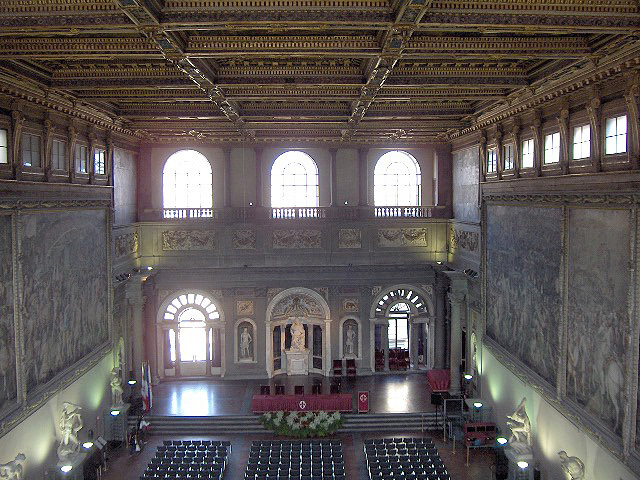 Salone dei Cinquecento, seen from the upper level; Palazzo Vecchio, Florence, Italy Own photo - photo made on 13 October 2005